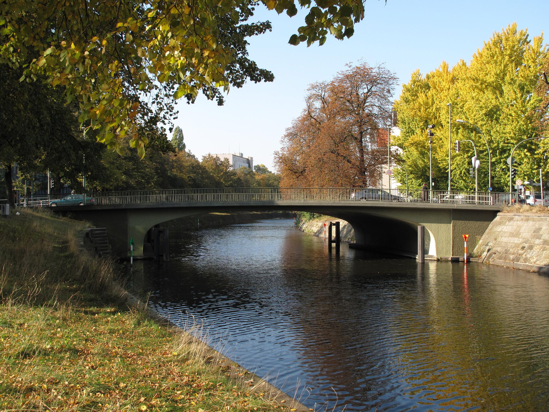 Bendlerbrücke, crossing the Landwehrkanal (canal) in Berlin-Tiergarten and connecting the Reichpietschufer with the Schöneberger Ufer. The bridge is named after the german politican and building contractor Johann Christoph Bendler. The bridge was new built in 1957/58 and was named before: Von-der-Heydt-Brücke.